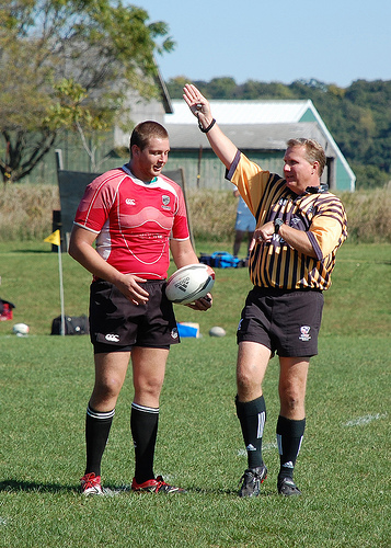 Referee giving a penalty